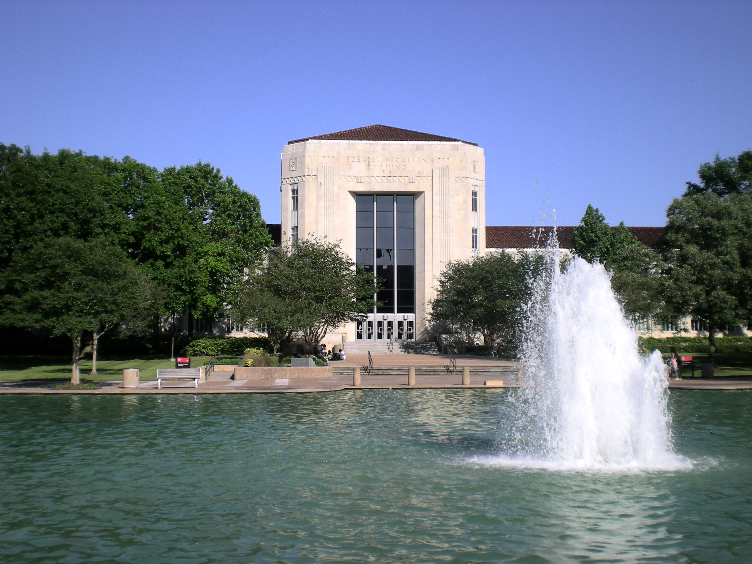 The Ezekiel W. Cullen building across from the Cullen Family Plaza Fountain at the University of Houston